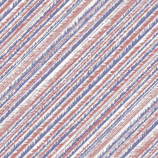 A lattice for the Biham-Middleton-Levine traffic model after 64000 iterations. The lattice is 512 by 512, with a traffic density of 27%. The red cars and blue cars take turns to move; the red ones only move rightwards, and the blue ones move downwards. Every time, all the cars of the same colour try to move one step if there is no car in front of it. The initial position before running is shown in File:Bml x 512 y 512 p 27 iterated 0.png. The graph of mobility versus time (mobility is the number of cars that can move in a particular turn) is shown at File:Bml x 512 y 512 p 27 MOBILITY.png. This was created with C++. Source code is located at user:Purpy Pupple/BML.